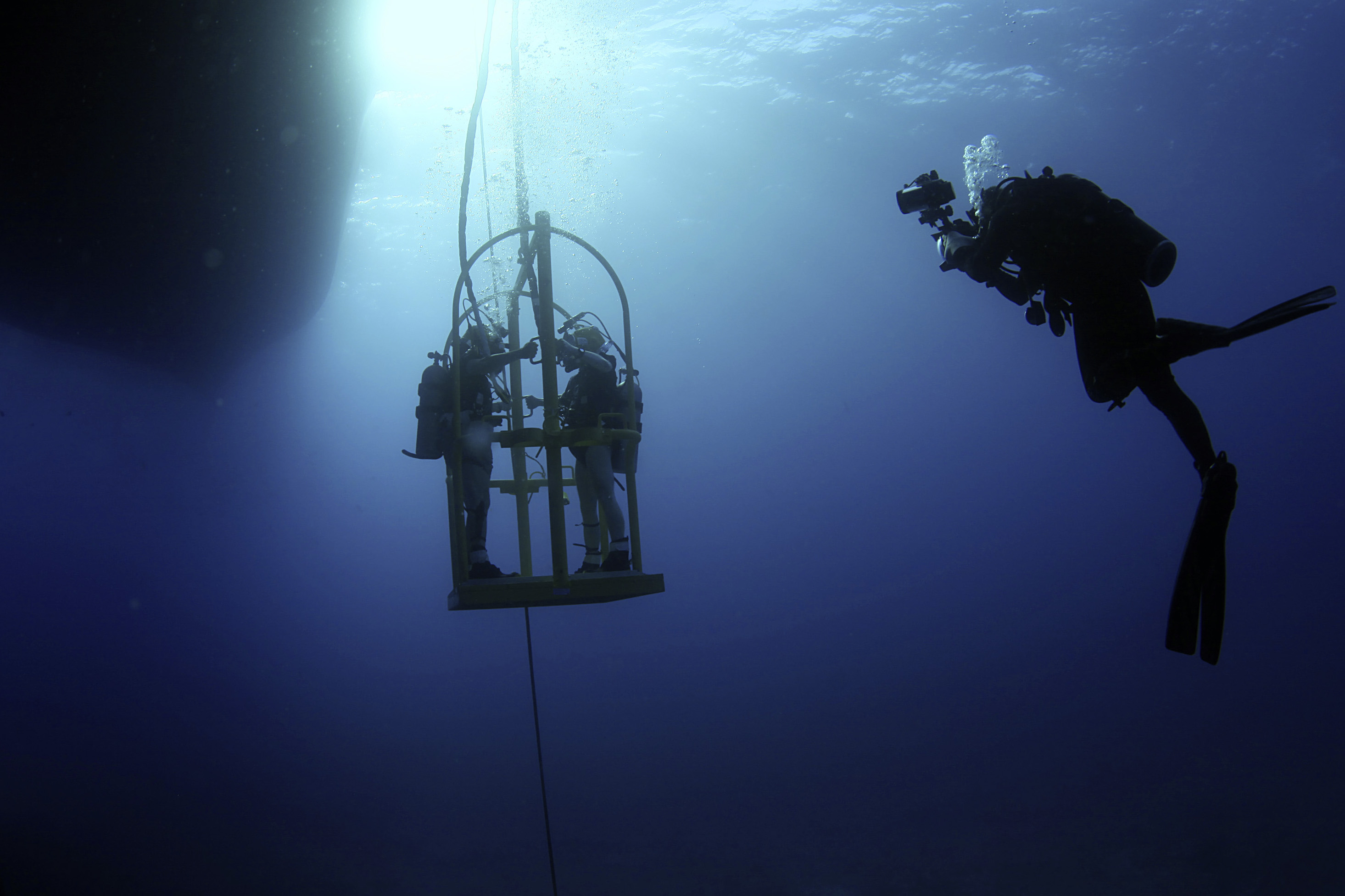 MAMALA BAY, Hawaii (Jul. 27, 2012) Mass Communication Specialist 3rd Class Jumar Balacy, right, documents a surface supplied dive during Rim of the Pacific (RIMPAC) 2012. Twenty-two nations, more than 40 ships and submarines, more than 200 aircraft and 25,000 personnel are participating in the biennial Rim of the Pacific (RIMPAC) exercise from June 29 to Aug. 3, in and around the Hawaiian Islands. The world's largest international maritime exercise, RIMPAC provides a unique training opportunity that helps participants foster and sustain the cooperative relationships that are critical to ensuring the safety of sea lanes and security on the world's oceans. RIMPAC 2012 is the 23rd exercise in the series that began in 1971. (U.S. Navy photo by Mass Communication Specialist 1st Class Anderson C. Bomjardim/Released) 120727-N-VF350-055 Join the conversation navylive.dodlive.mil